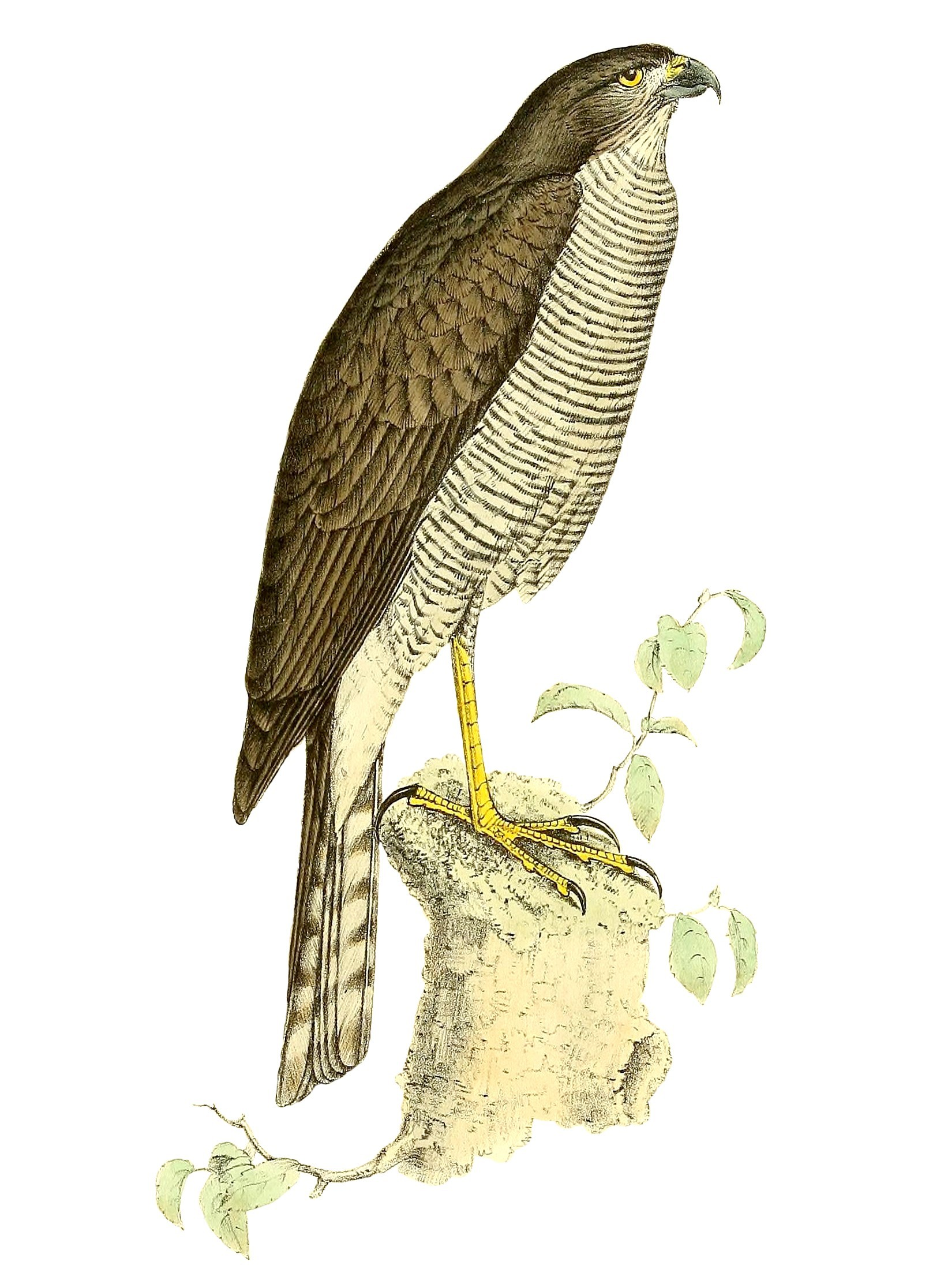 Nisus lantzii = Accipiter madagascariensis (Madagascar Sparrowhawk), adult female